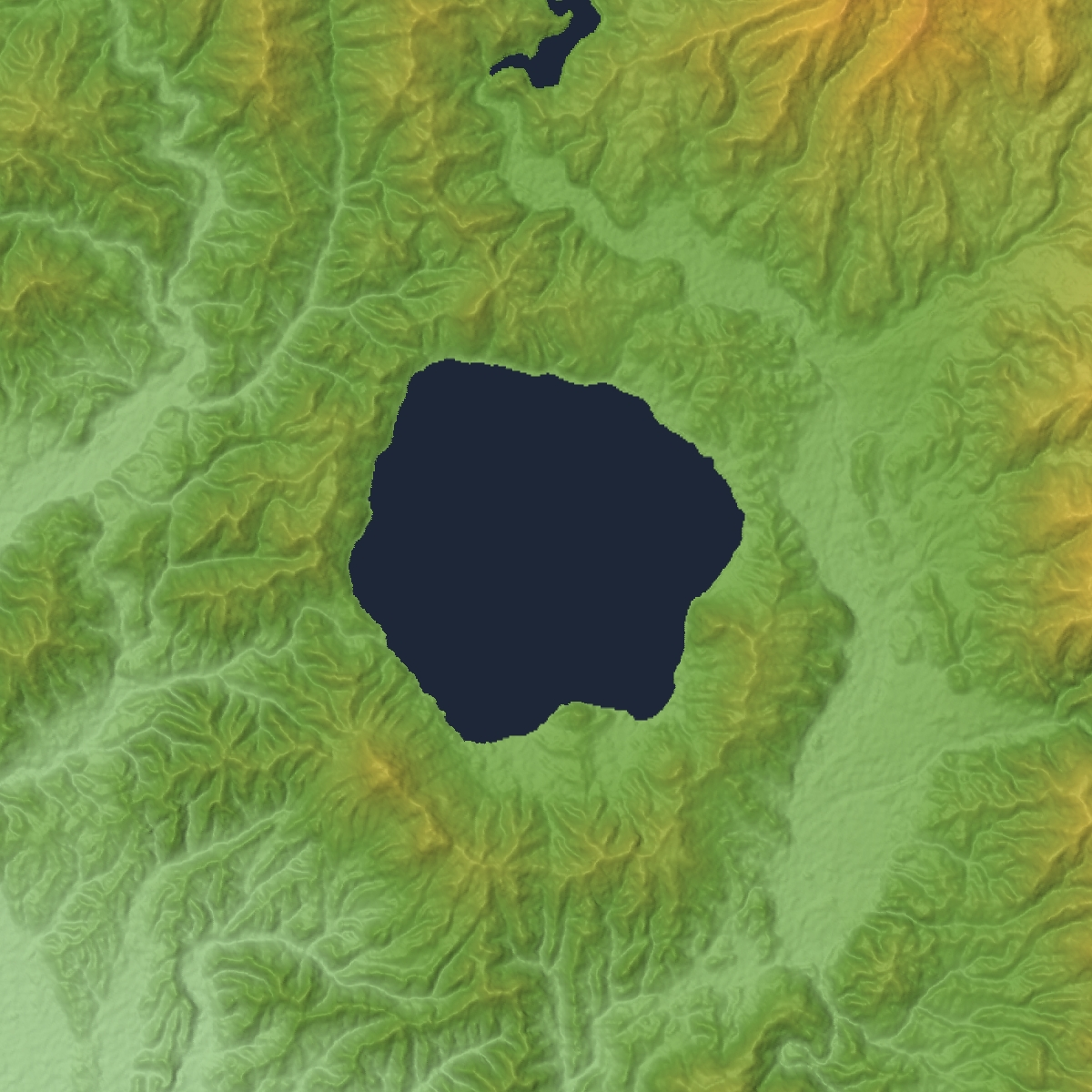 Tazawako Caldera in Akita Prefecture, Honshu, Japan.